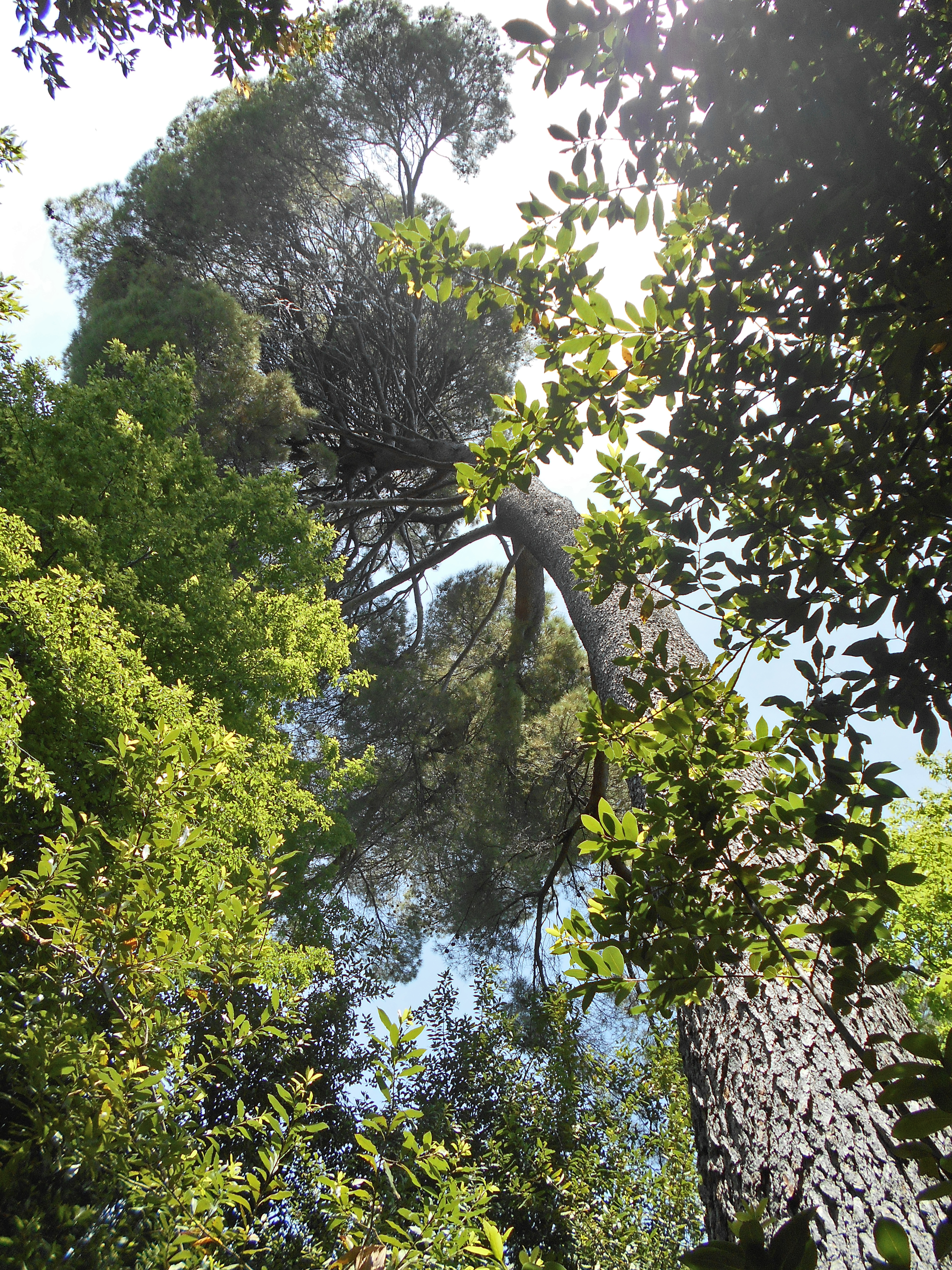 Aleppo pine (Pinus halepensis) in Trsteno arboretum, Croatia